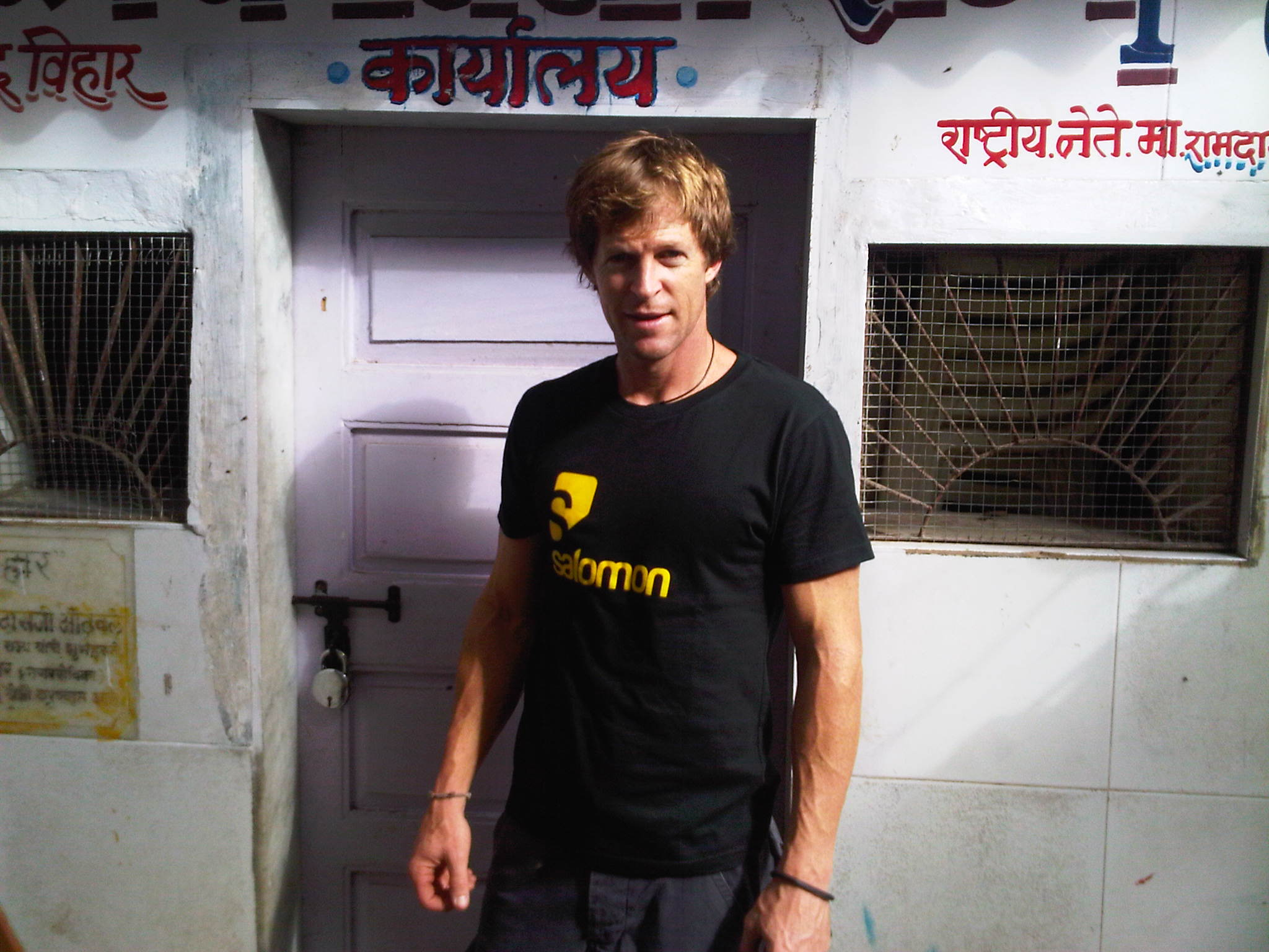 Former South African Batsman Jonty Rhodes on the Central African Republic Expedition.